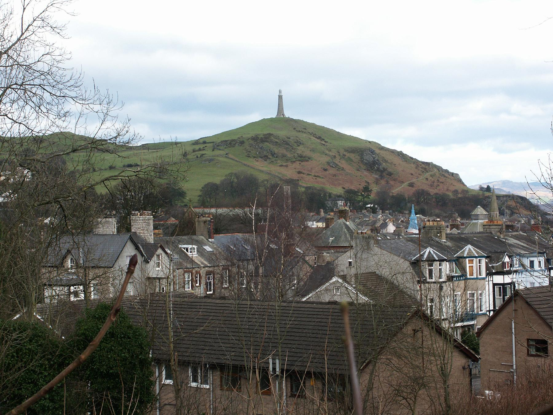 View over to Hoad Hill.